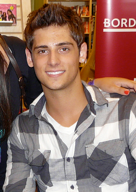 Jean-Luc Bilodeau. 16 Wishes event at Borders.